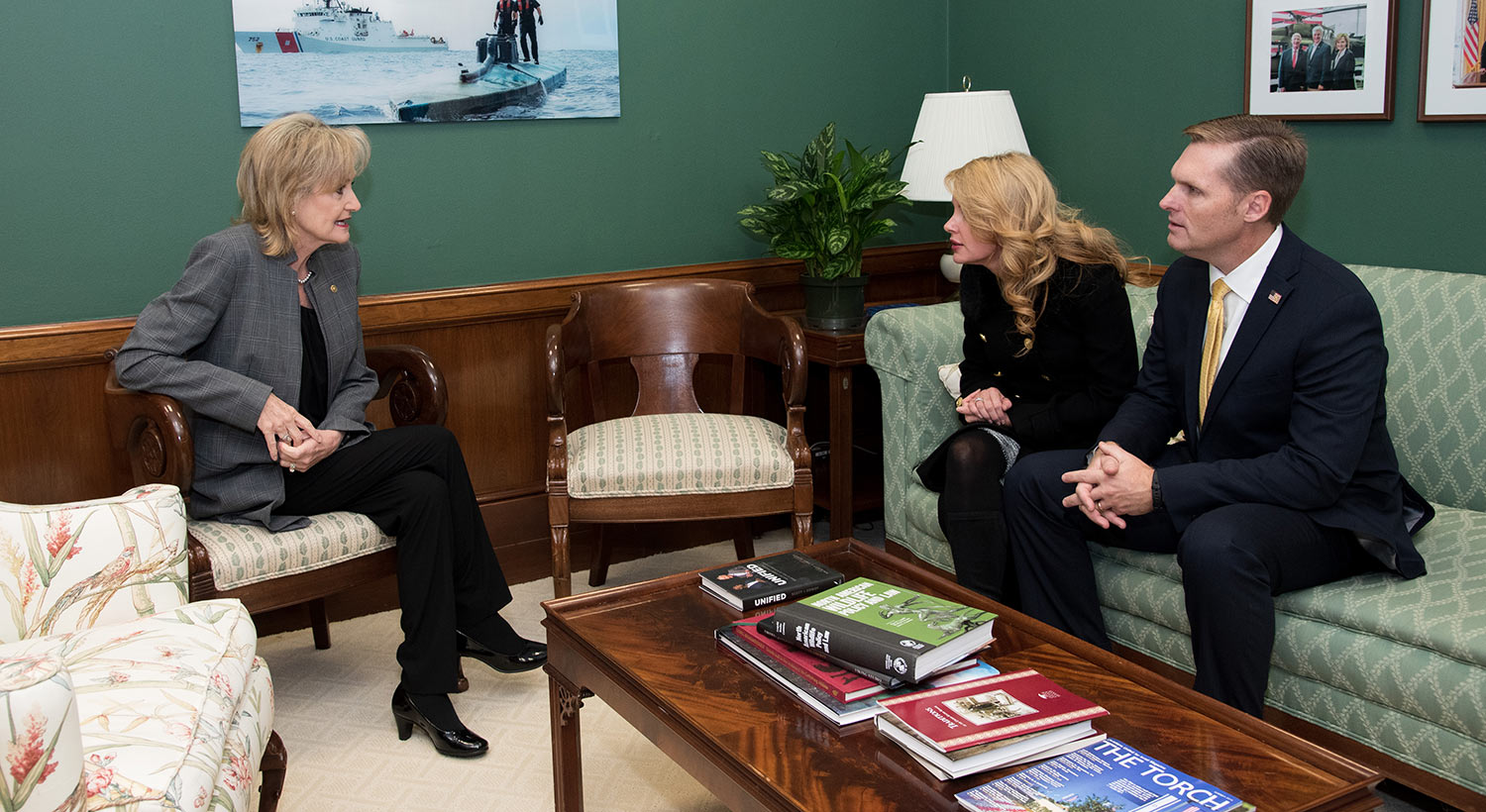 Senator Cindy Hyde-Smith visits with Congressman-elect Michael Guest and his wife, Haley. (Nov. 29, 2018)